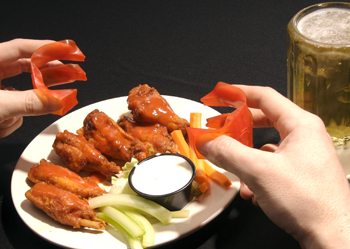 Trongs (from "tri" and "tongs"), designed for eating messy fingerfood. Image from source material of owner with explicit permission.